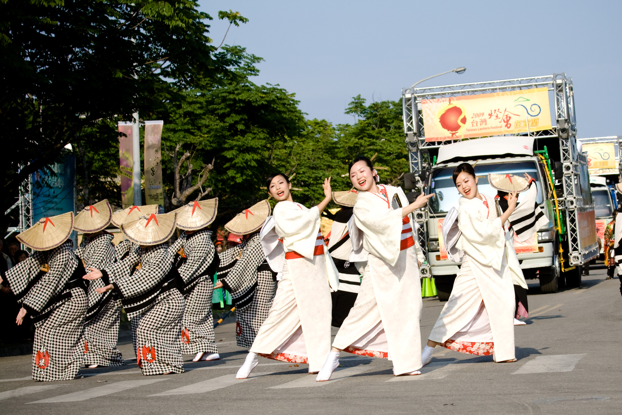 20th Taiwan Lantern Festival 2009 Japan TEAM 中文（台灣）: 第二十屆臺灣燈會在宜蘭 日本YOSAKOI隊伍 新琴似天舞龍神 表演